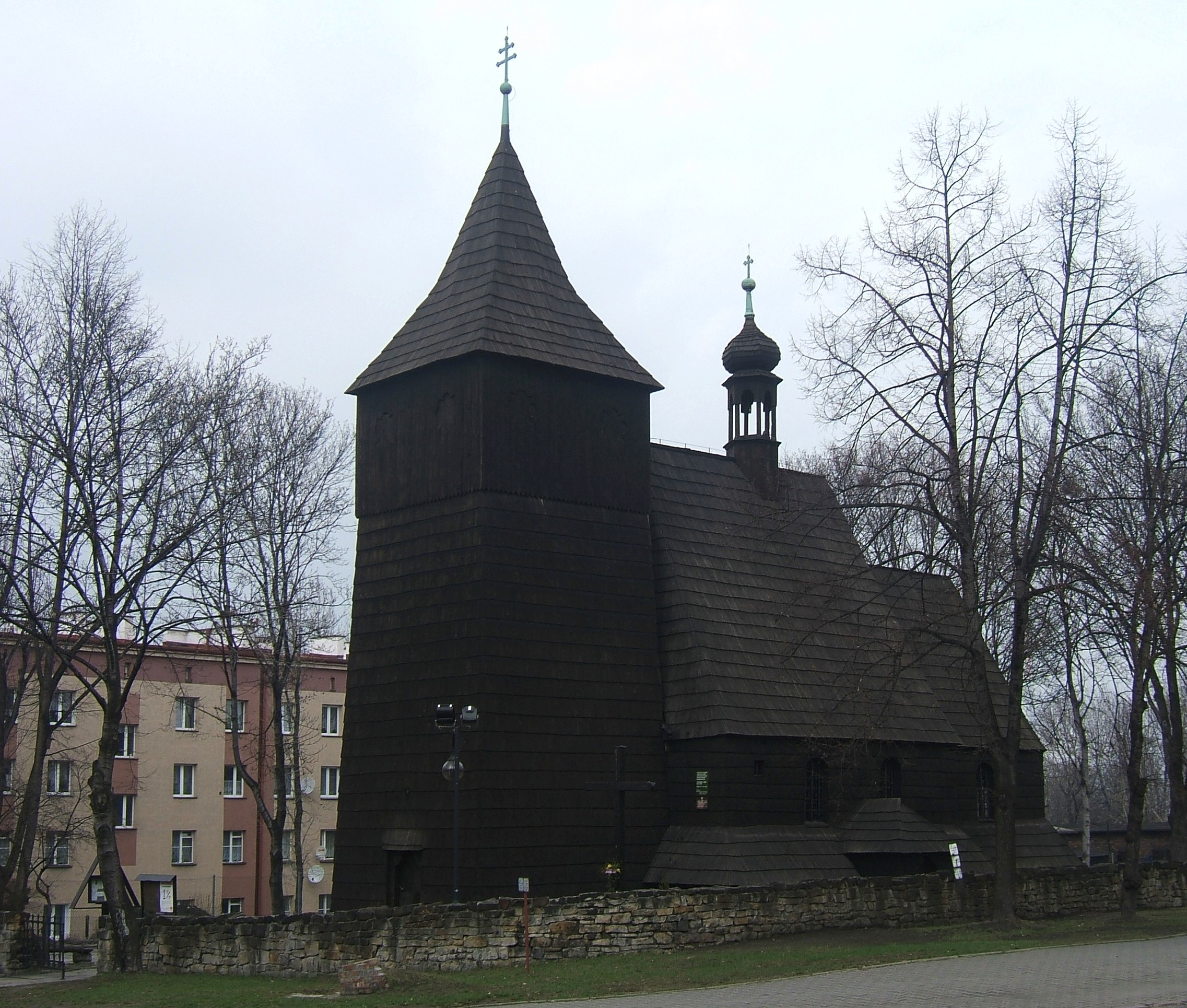 The wooden church of St. Lawrence (16th cent.) in Chorzów.